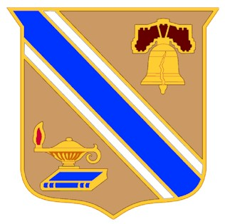 Quartermaster Center and School Distinctive Unit Insignia (DUI) from